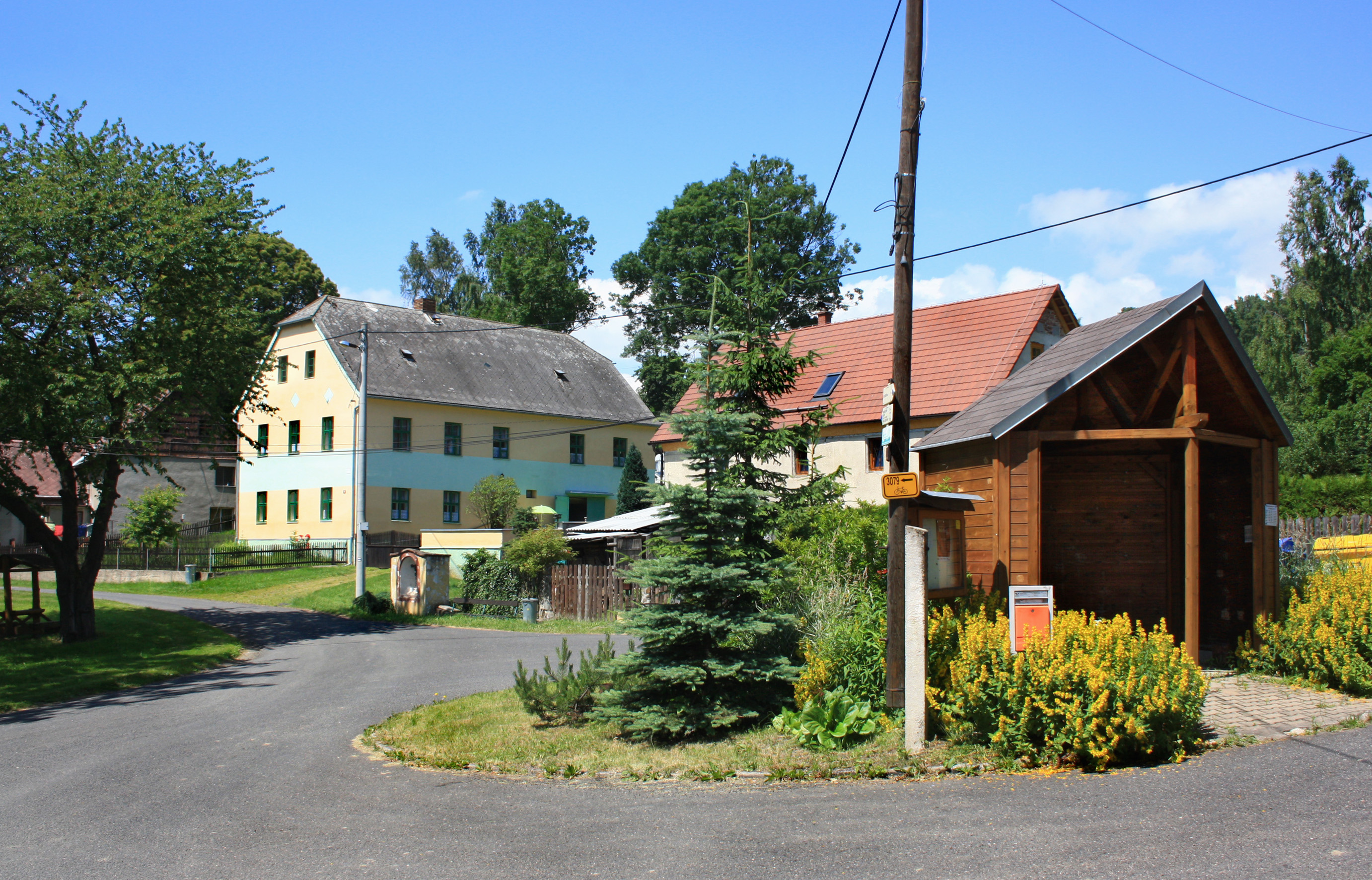 East common at Orasín village, part of Boleboř, Czech Republic